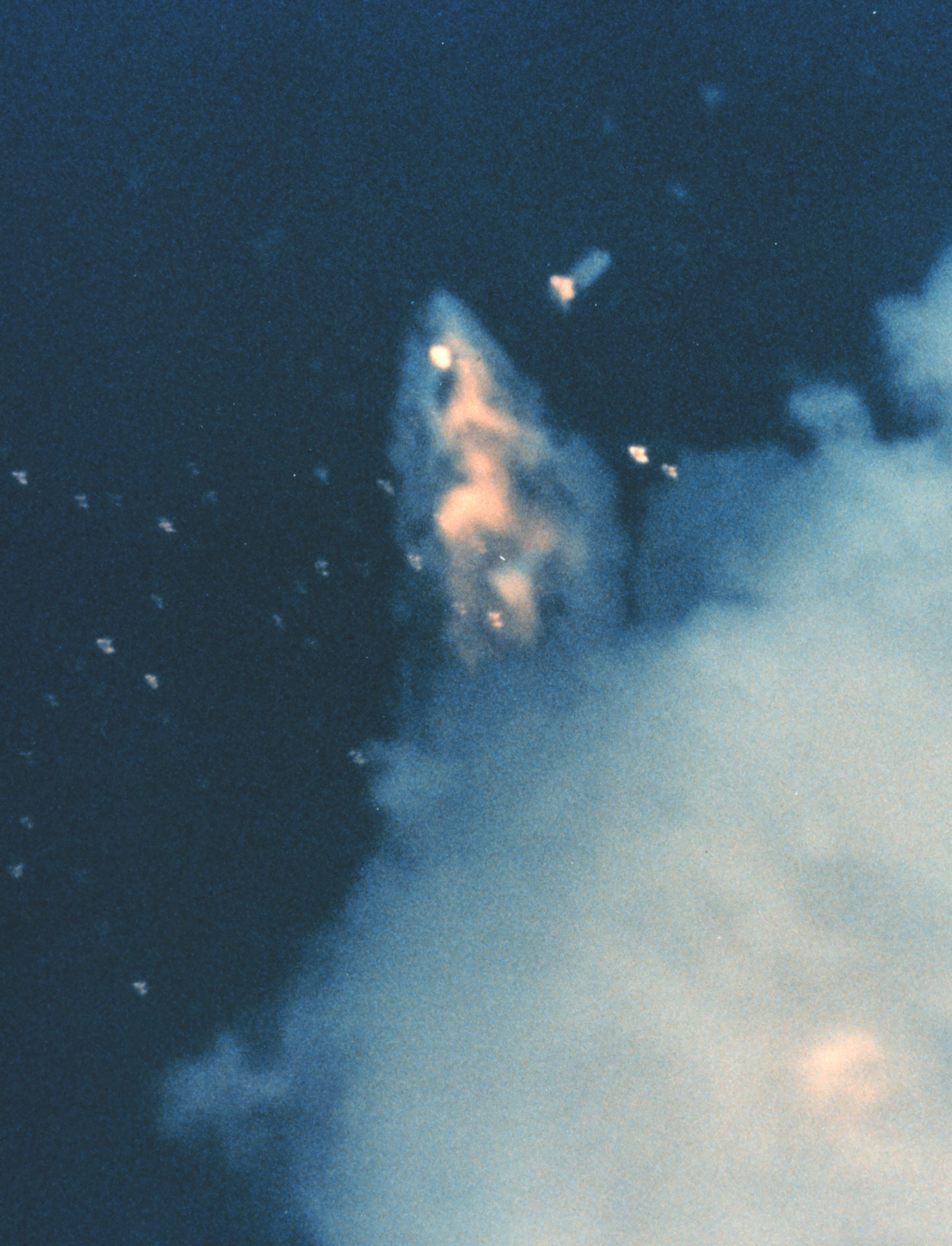 GOES G ends in a fiery explosion as the Cape Canaveral Range Safety Officer destroys Delta Launch Vehicle 178 after 91 seconds.